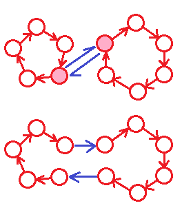 two cicles hit by a transposition